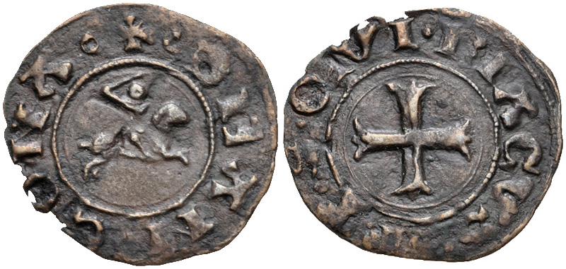 Italy, Ancona. 14th century. Æ Quattrino (17mm, 0.54 g, 3h). + • DE • ΛN • CONΛ •, horseman galloping right • PP • S • QVI • RIΛCVS, cross ancrée.